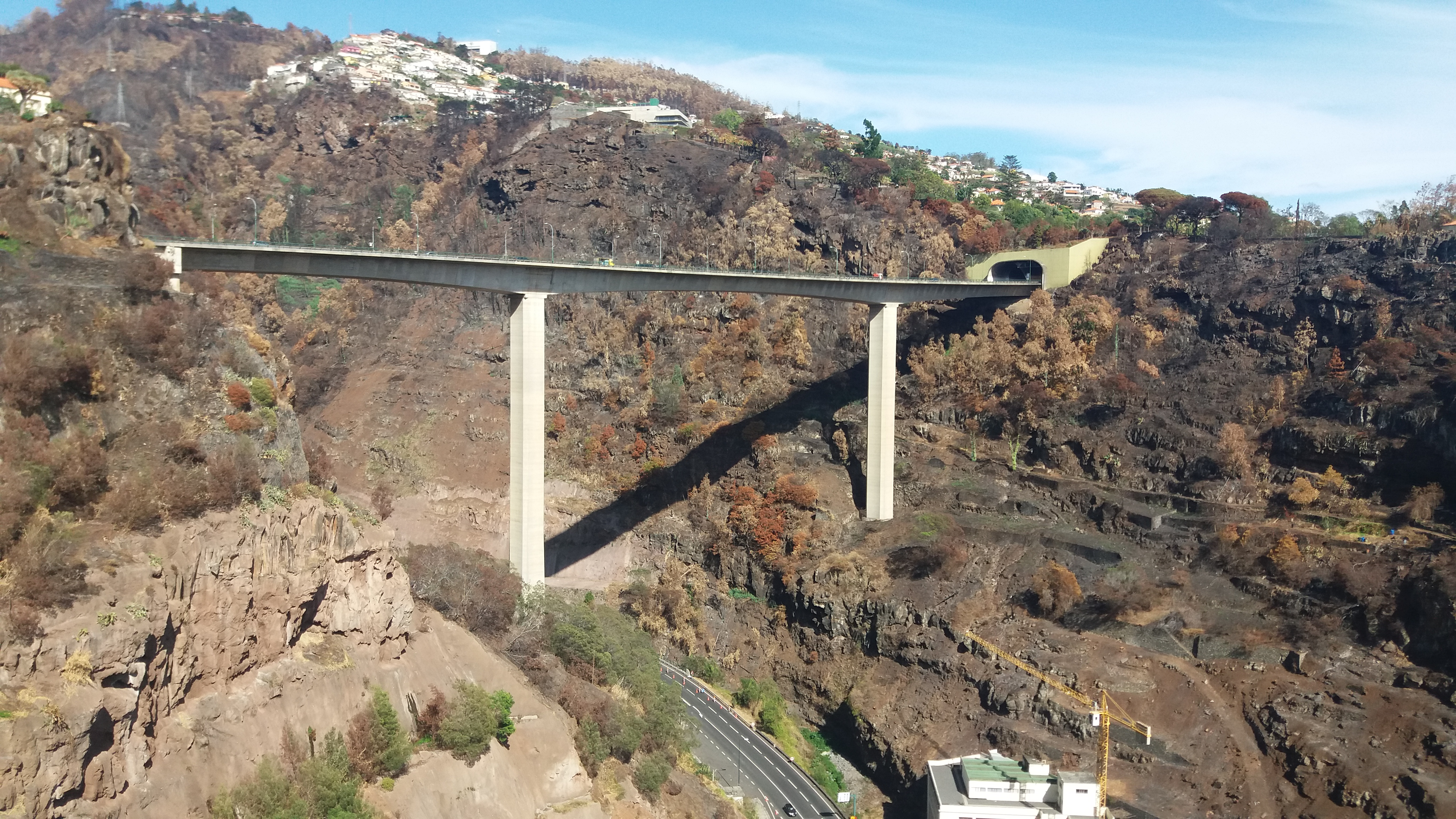 Motorway bridge across one of the valleys devastated by August fires. This shows only a small part of the destruction.